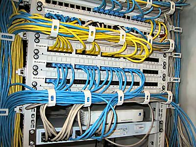 Straightforward (organised) patch panel File name: 109-0919_IMG.JPG Date of recording: September 2001